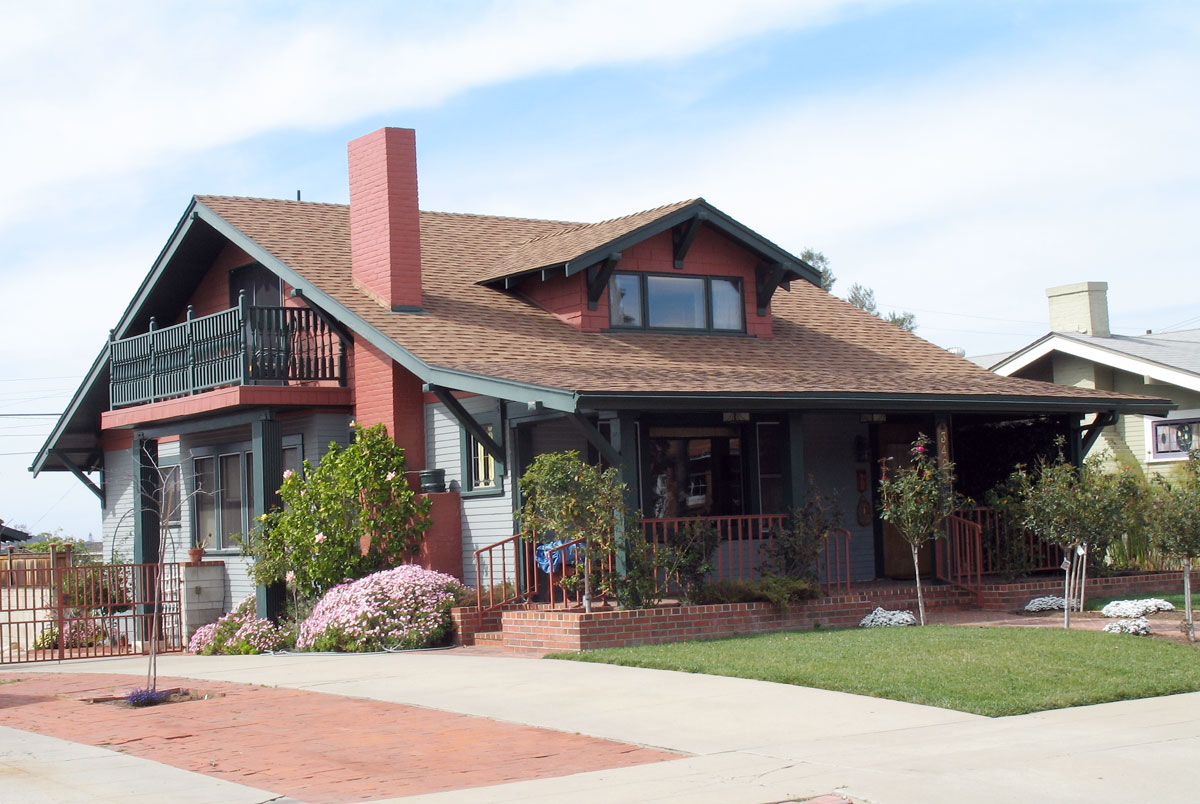 Craftsman-style bungalow in North Park, San Diego, California We're a few blocks closer to Balboa Park here & following